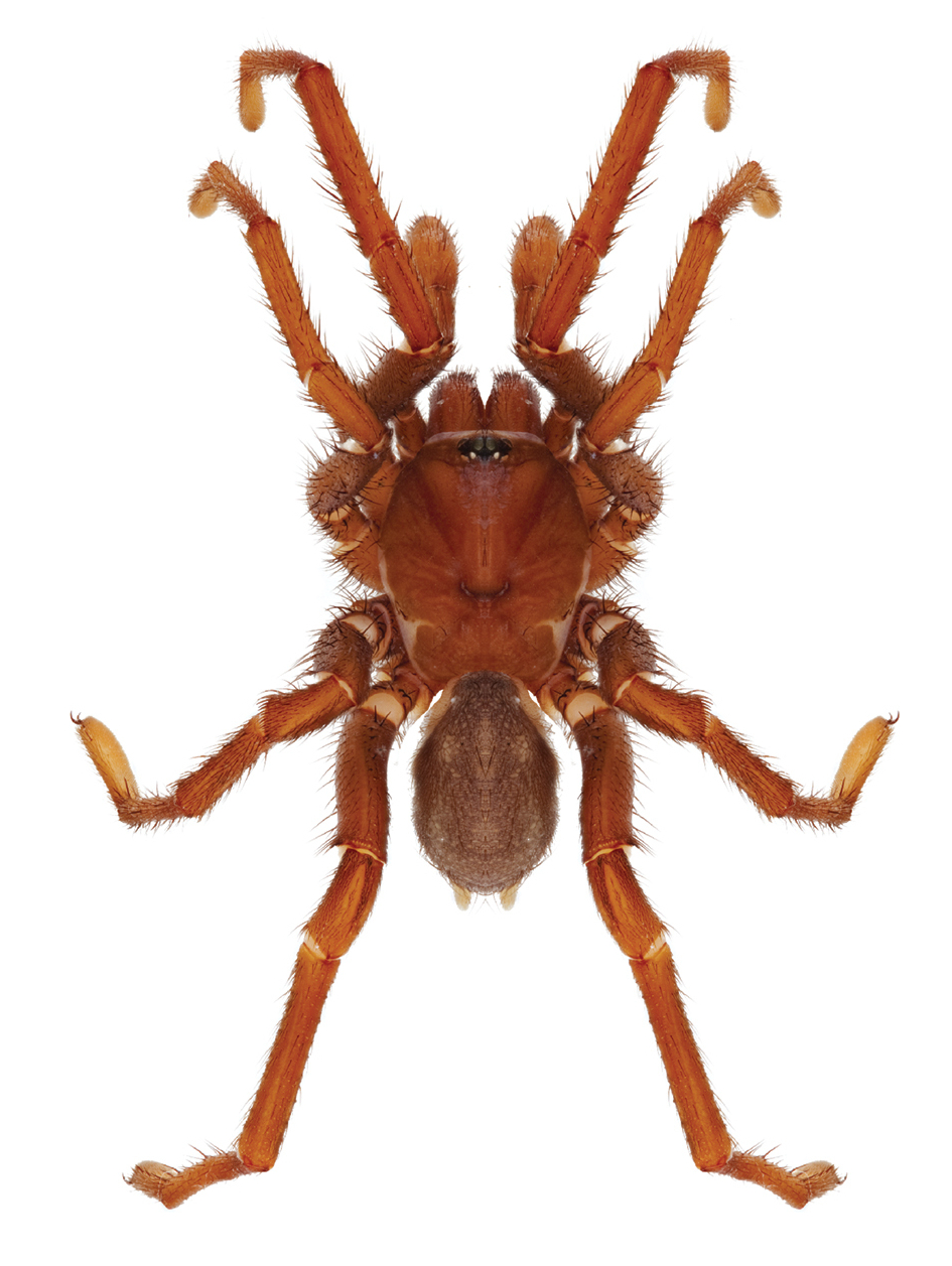 Eucteniza cabowabo from Mexico, Baja California Sur, male holotype. Note: Image was created by mirroring one half of a photographed specimen, resulting in a symmetrical, idealized view.